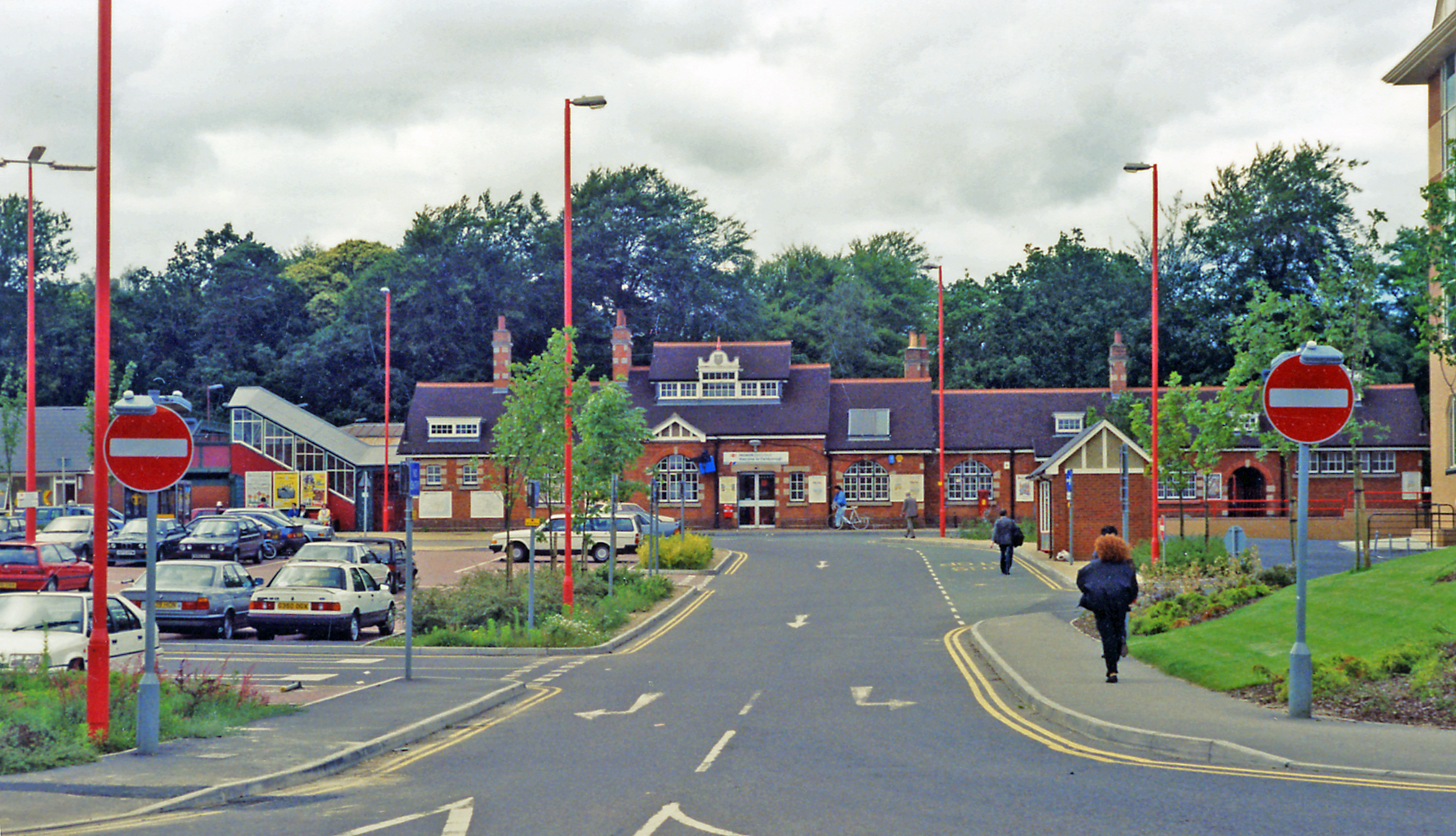 Entrance to Farnborough station, 1991. View northward, to Down side of the station: ex-LSWR London Waterlo (to right) - Basingstoke and the West (to the left) main line.